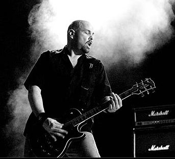 Kurdt Vanderhoof performing live in Germany, 2005